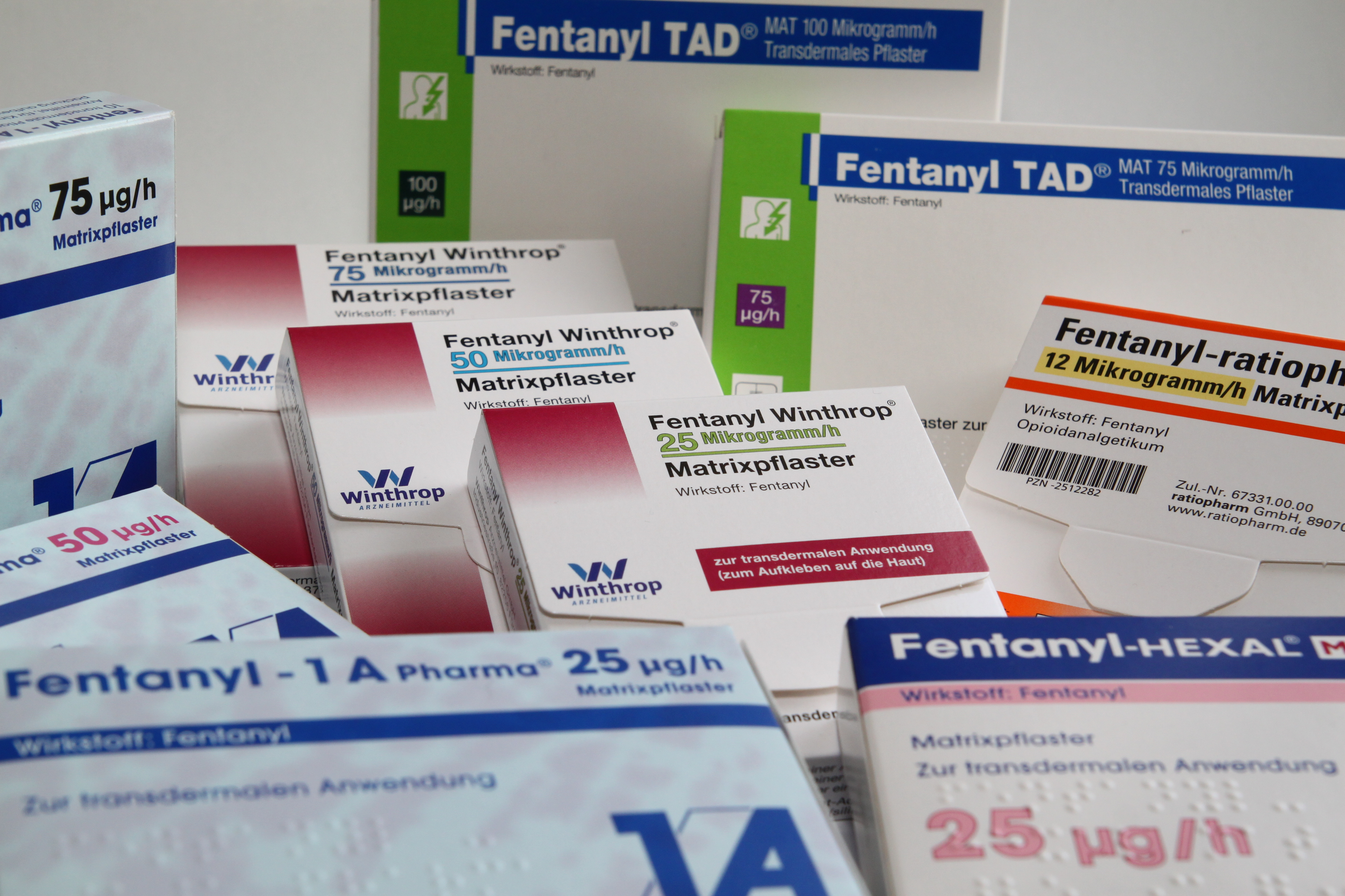 Fentanyl patch packages from several german generic drug manufacturers (from left to right: 1A Pharma, Winthrop, TAD Pharma, ratiopharm, Hexal).